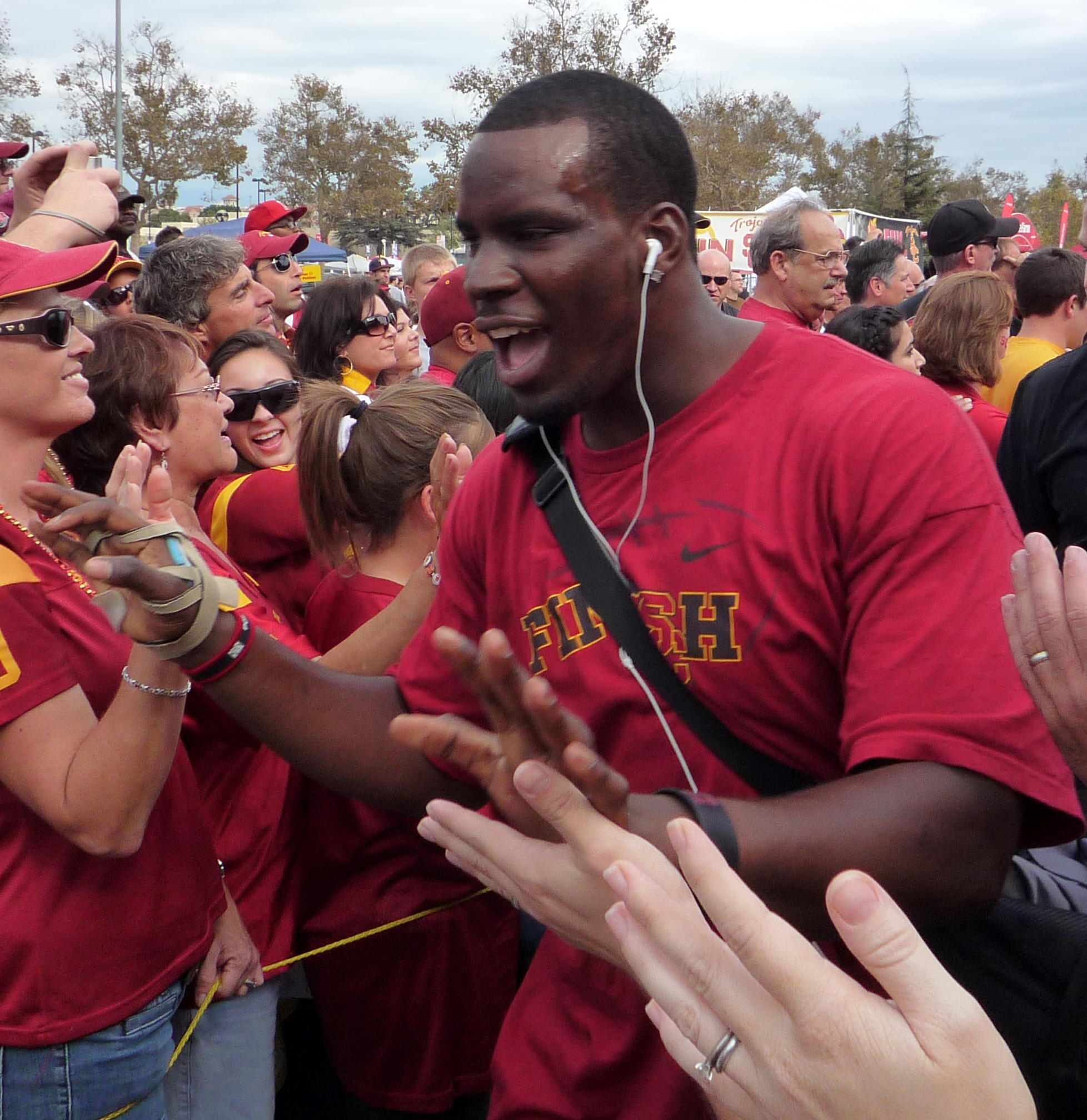 Defensive end Kyle Moore during the "Trojan Walk" preceding a 2008 USC Trojans football season game.